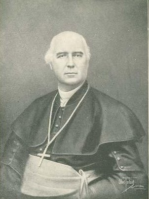 Charles La Rocque Source: Archives de Montreal